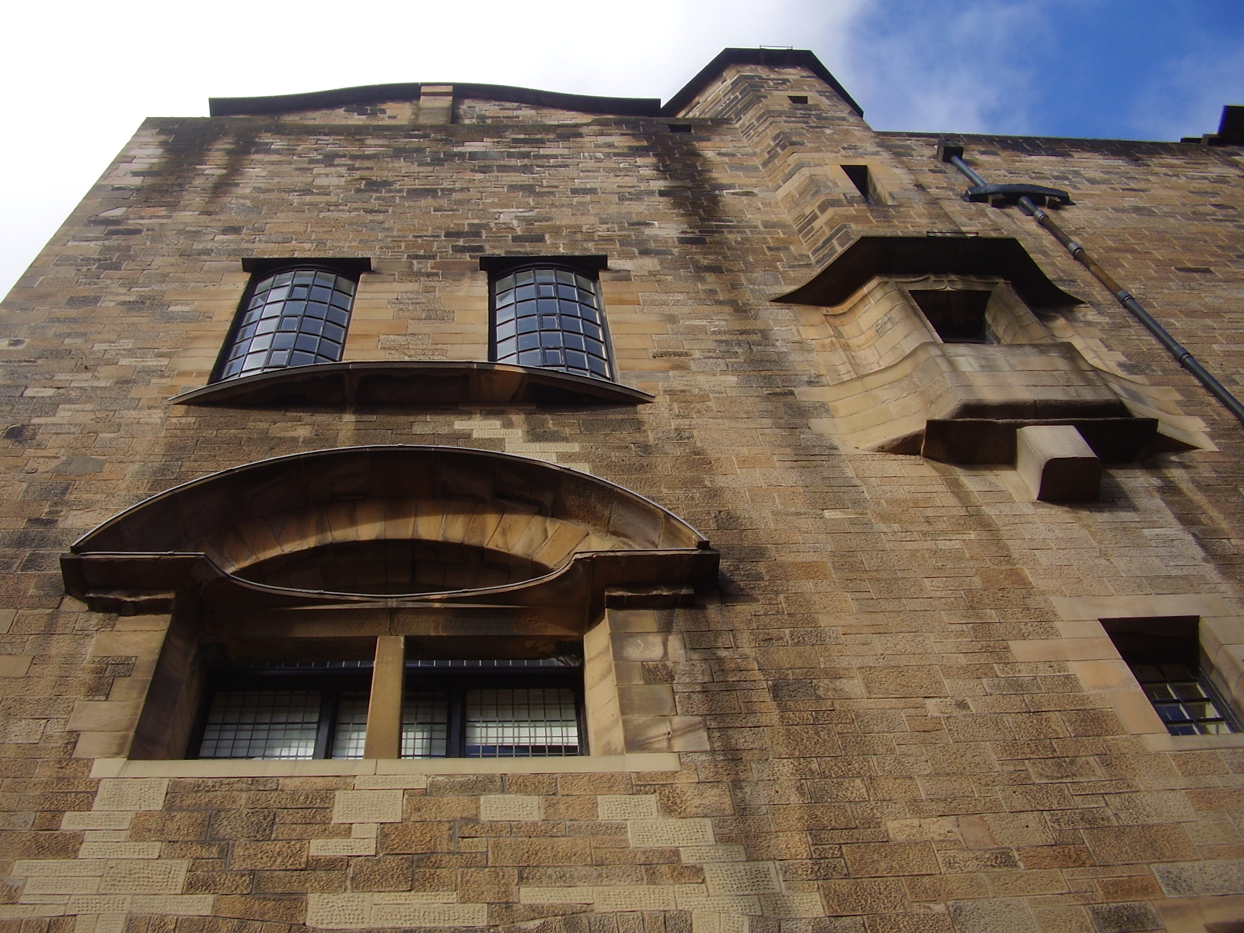 East façade of the Glasgow School of Art by Charles Rennie Mackintosh